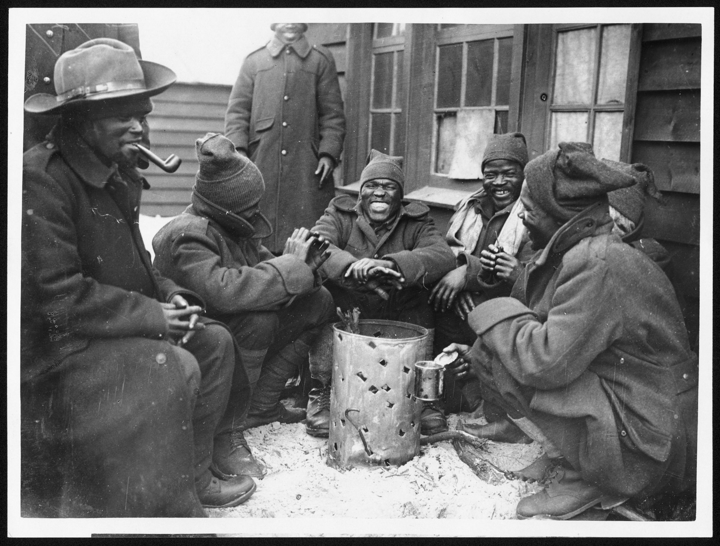 Labour Corps, Western Front, during World War I. This is one of a series of photographs, several of which have been attributed to John Warwick Brooke, which appear to show members of the South African Native Labour Contingent (SANLC). In this instance a group of black South Africans are shown seated around a brazier outside a wooden hut. The SANLC were discriminated against because of the racist attitudes of the time. They were used as cheap labour but were denied the right to serve in the army or to be given any recognition of the role they played. In part this was due to the South African government's fear of the native claims for land. [Original reads: 'Smiling and warm.']